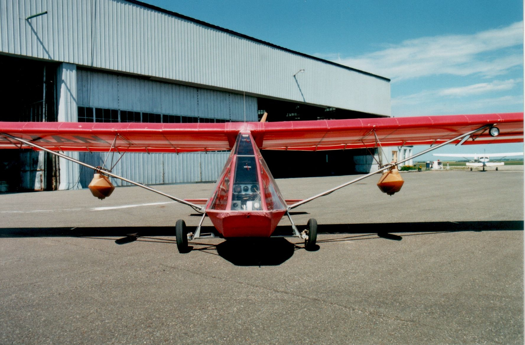 Birdman Chinook 2S at Brandon Manitoba